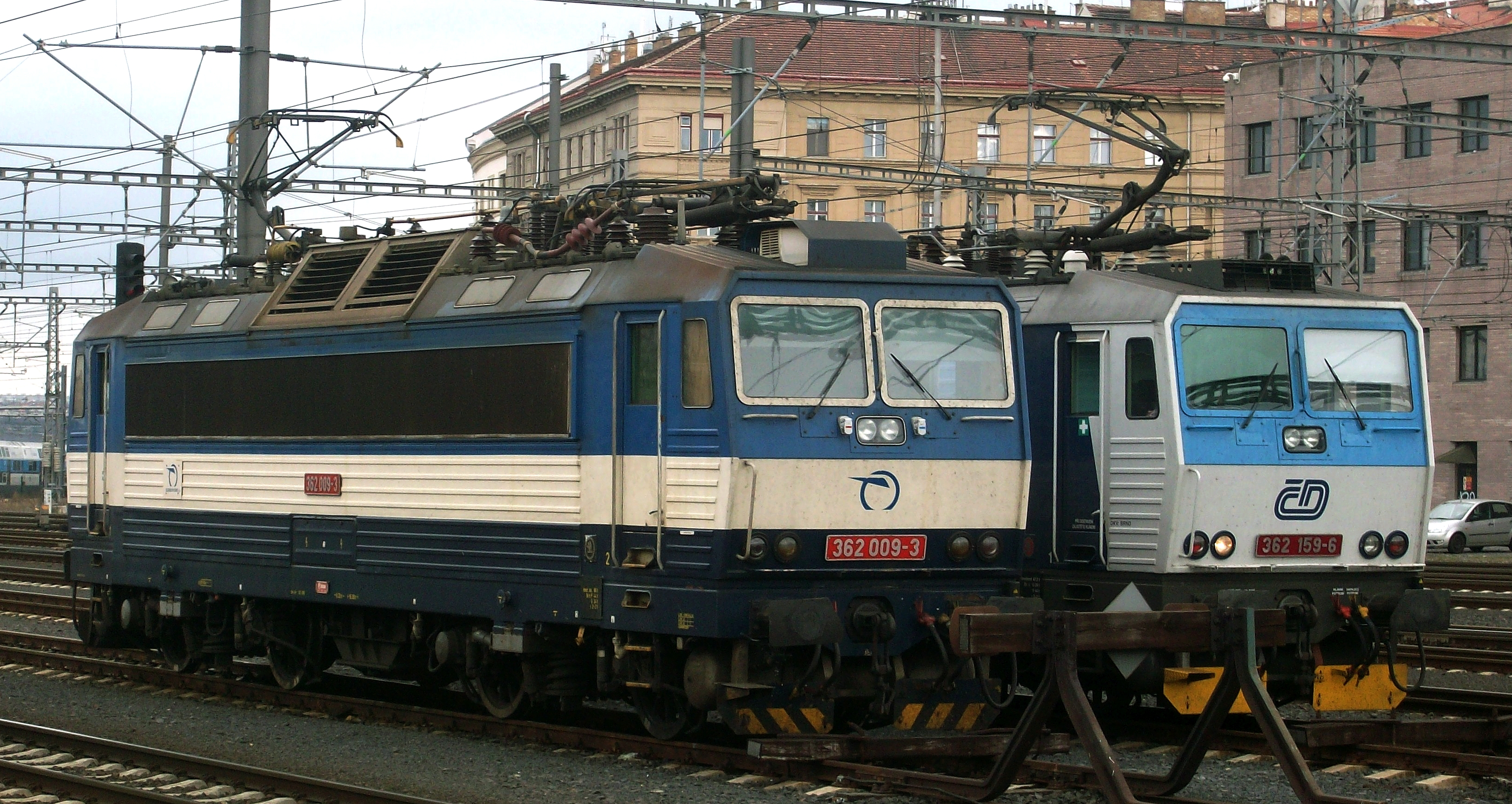 ČD Class 362 &t ZSSK Class 362 in Prague